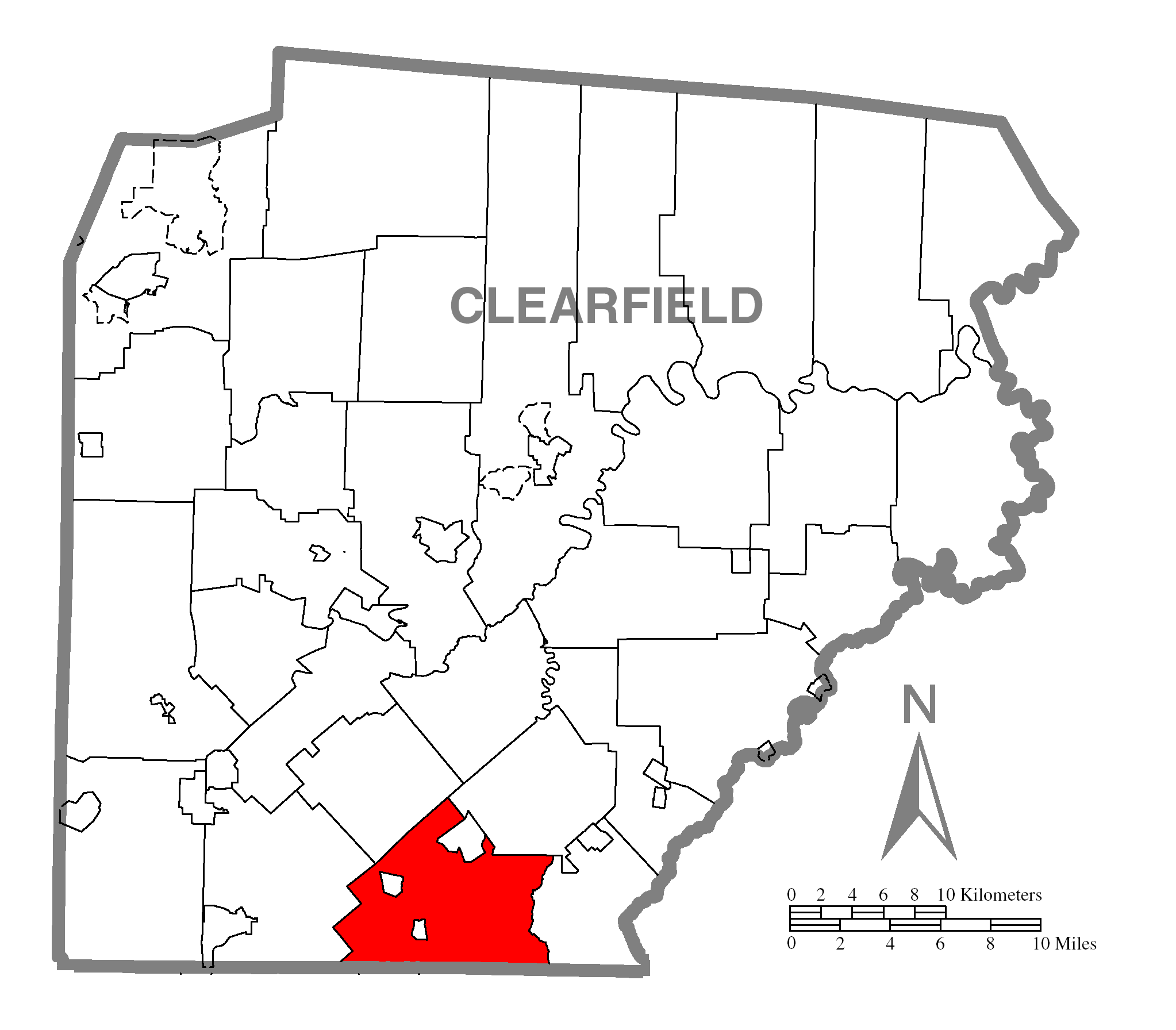 A map of Clearfield County showing Beccaria Township, Pennsylvania (alternate) highlighted on the map.